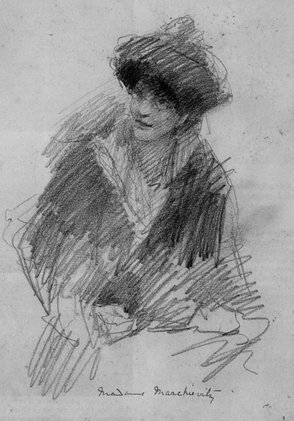 Portrait of Countess Constance Markiewicz, an Irish politician, revolutionary nationalist and suffragette, pencil drawing